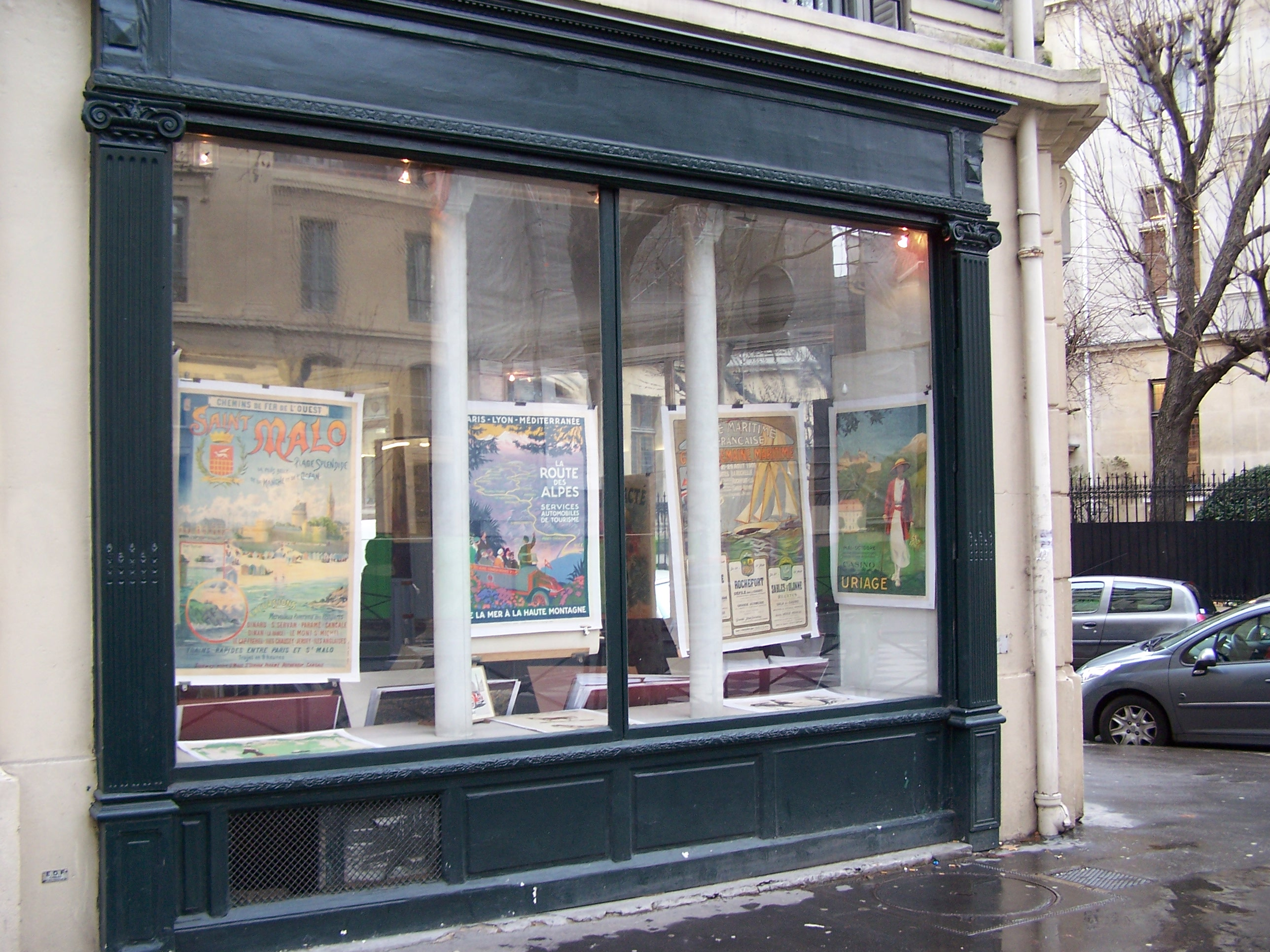 Postershop (Elbé) at 213 bis boulevard Saint-Germain in Paris